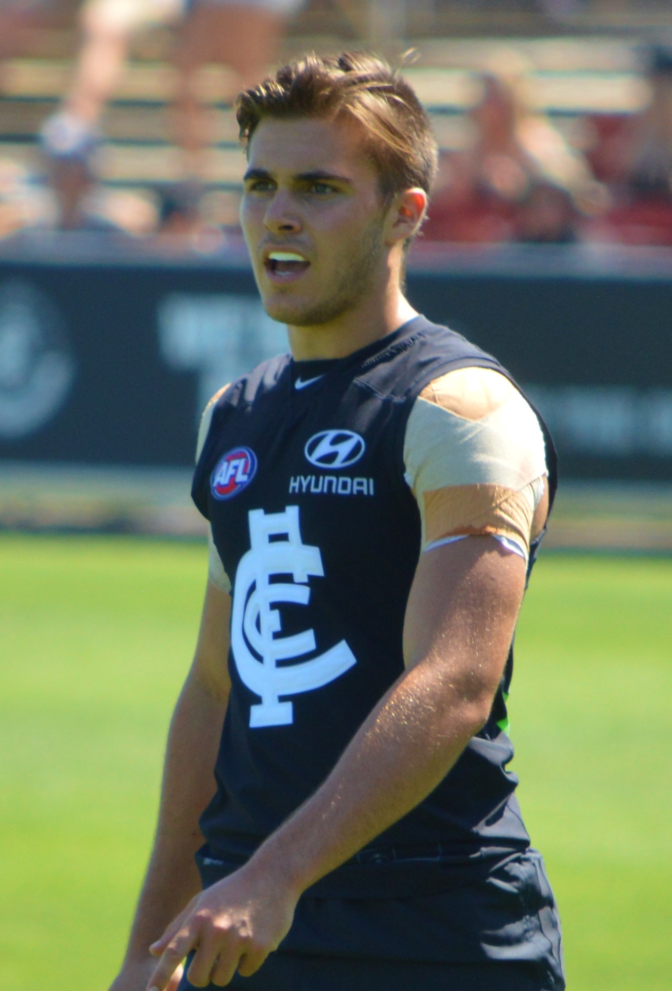 Cameron Polson prior to a JLT Community Series match in March 2017